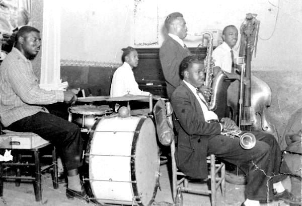 Local call number: FP83200c Title: [Musicians performing in Tom's Tavern club at Gonzalez and Railroad streets: Pensacola, Florida] Date: 1956. Physical descrip: 1 photonegative : b&w ; 35 mm. Series Title: ( Florida Folklife Collection .) Accompanying note: "L - Roosevelt Roland, drums; L rear - Henry 'Chick' Minor, piano; Center rear - George Hawkins, tenor sax; R - Corrie Davis, trumpet; R rear - Harold Andrews, bass." Repository: State Library and Archives of Florida , 500 S. Bronough St., Tallahassee, FL 32399-0250 USA. Contact: 850-245-6700. Persistent URL